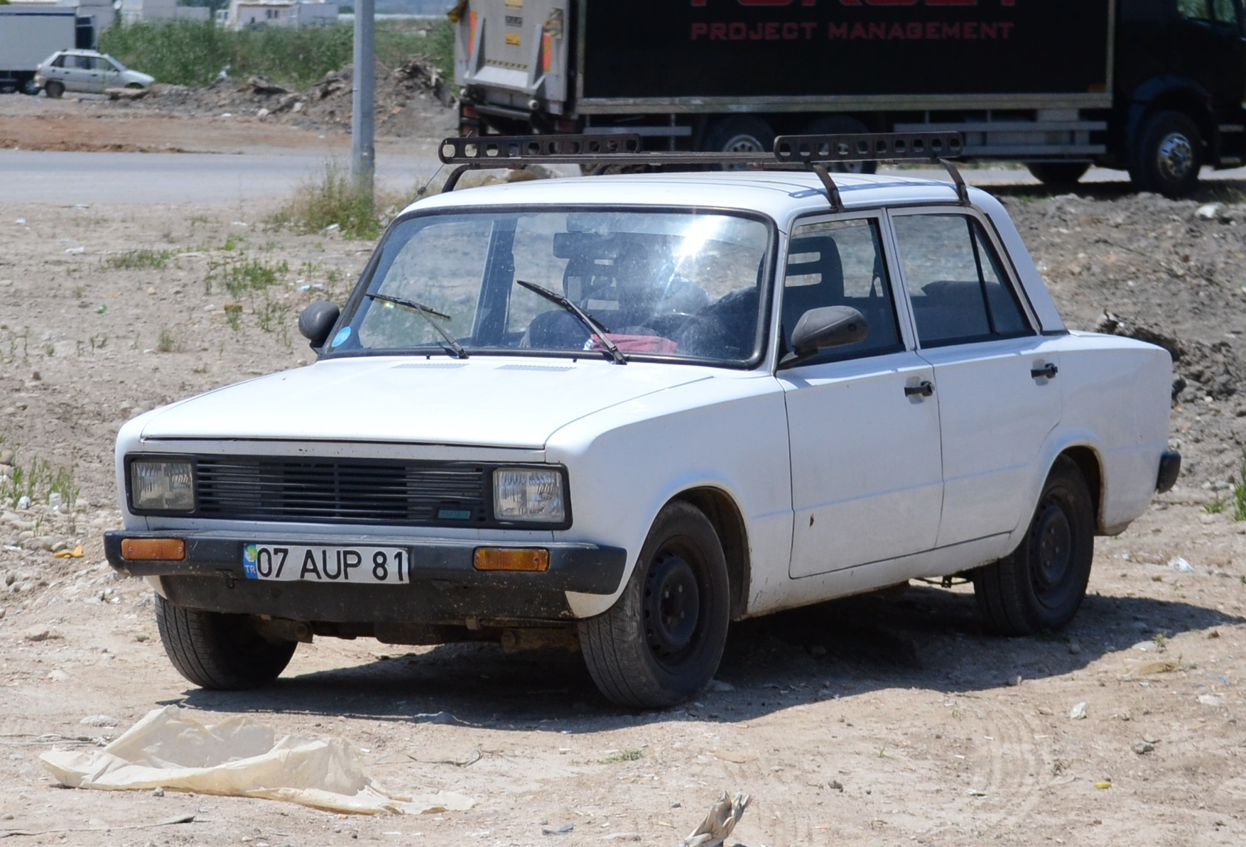 Tofaş Serçe in Turkey